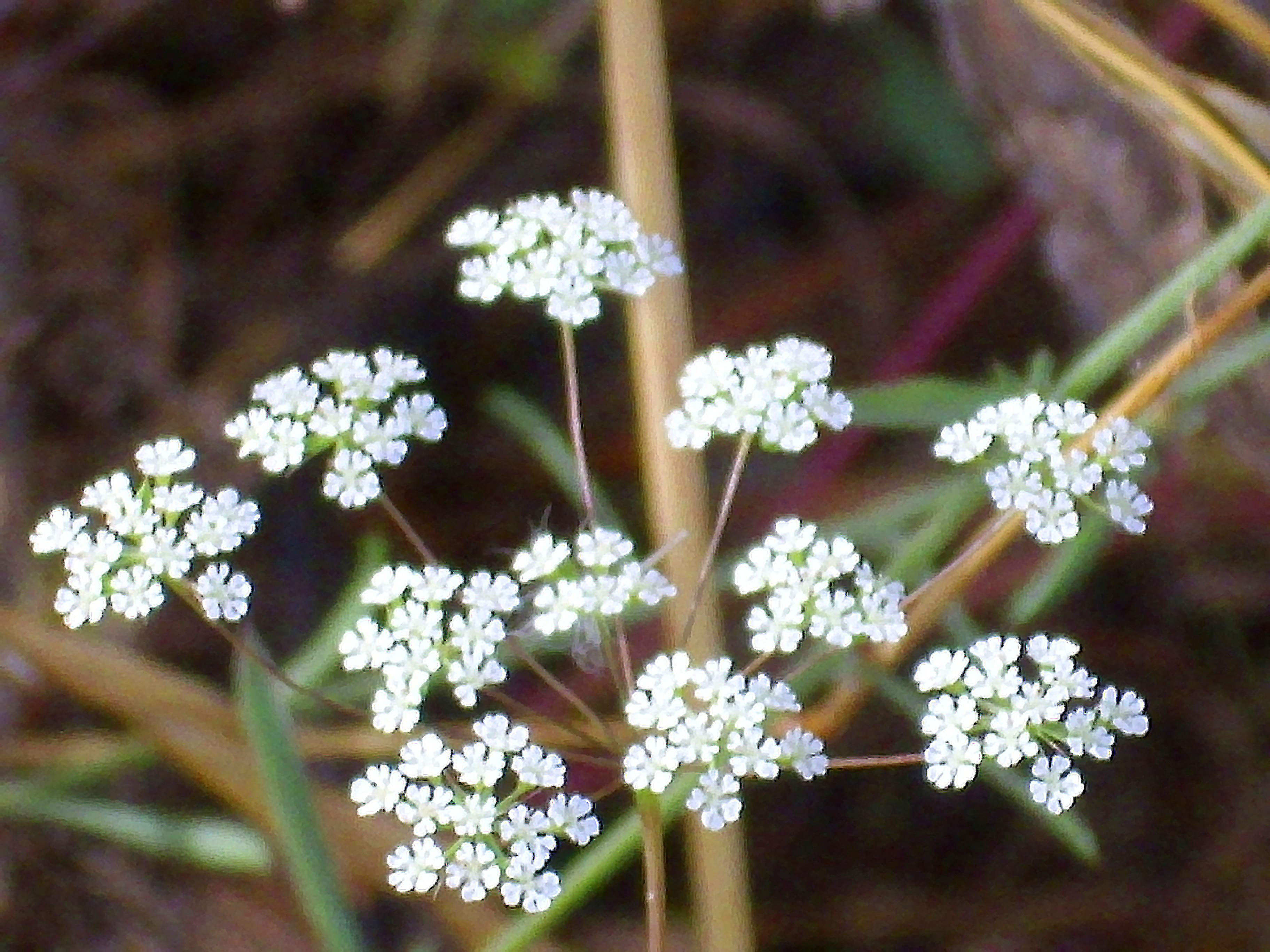 Ammoides pusilla inflorescence Campo de Calatrava, Spain